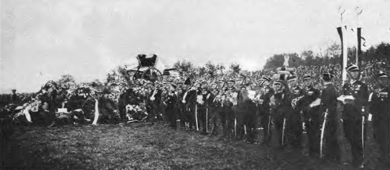 Józef Piłsudski's funeral - Warsaw 1935.